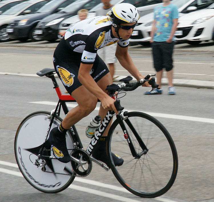 Tim Mertens (BEL) during Tour of Denmark/Post Danmark Rundt 2009, stage 5 (timetrial 15,5 km)